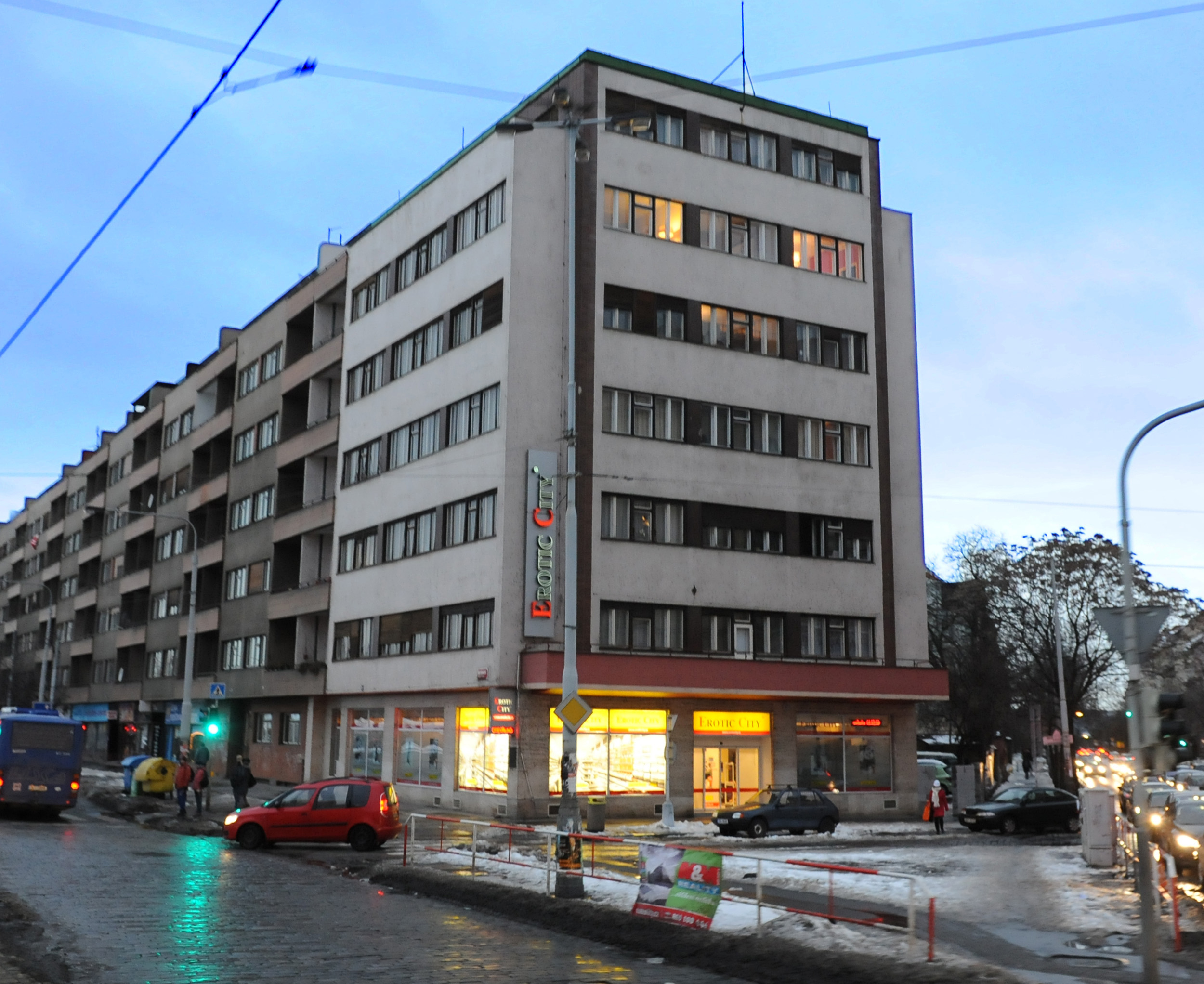 funkcionalist Molochov building in Prague today